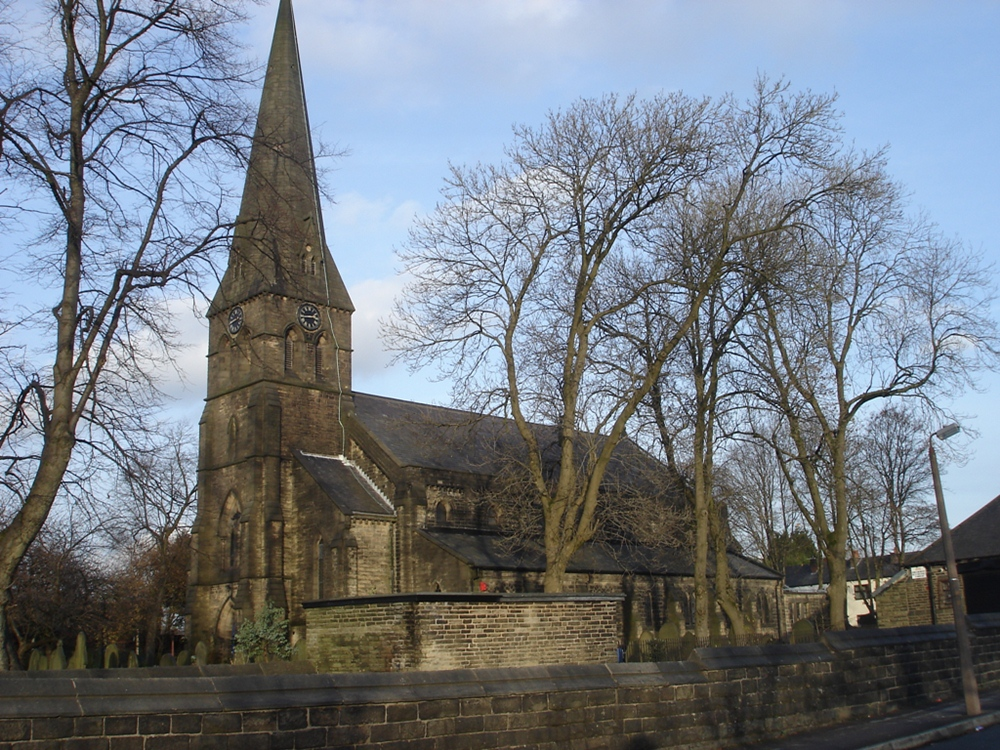 St Paul's parish church, Astley Bridge, Bolton, Greater Manchester, seen from the southwest